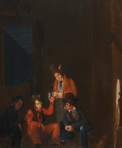 "The Lafitte Brothers in Dominique You's Bar". Oil on wood panel, c. 1821, attributed to John Wesley Jarvis